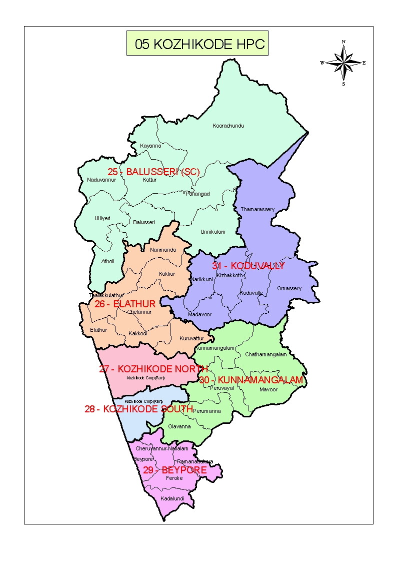 This is the map of Kozhikode Lok Sabha Constituency